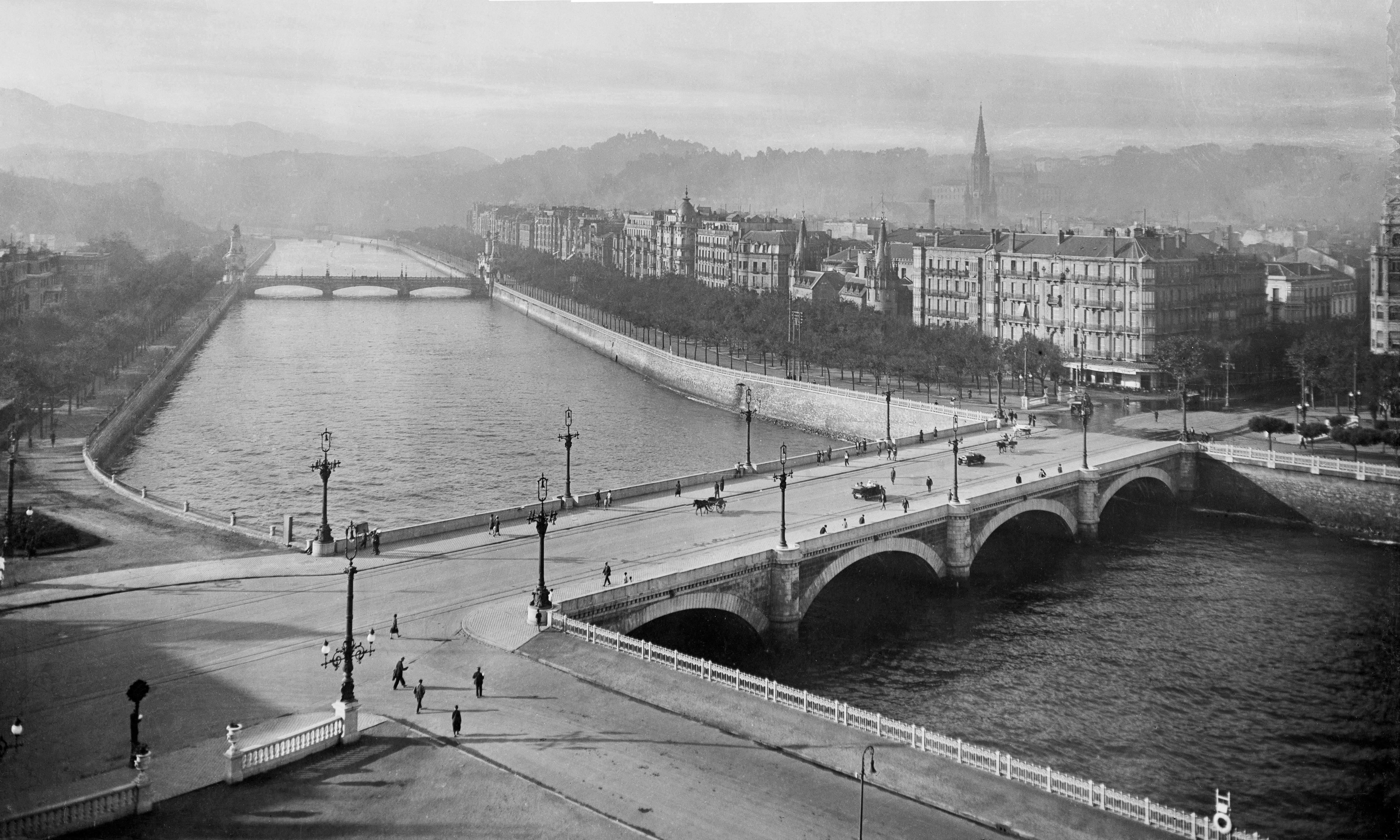 Santa Katalina bridge. Between 1905 and 1910. Saint Sebastian - Donostia, Gipuzkoa. Basque Country.